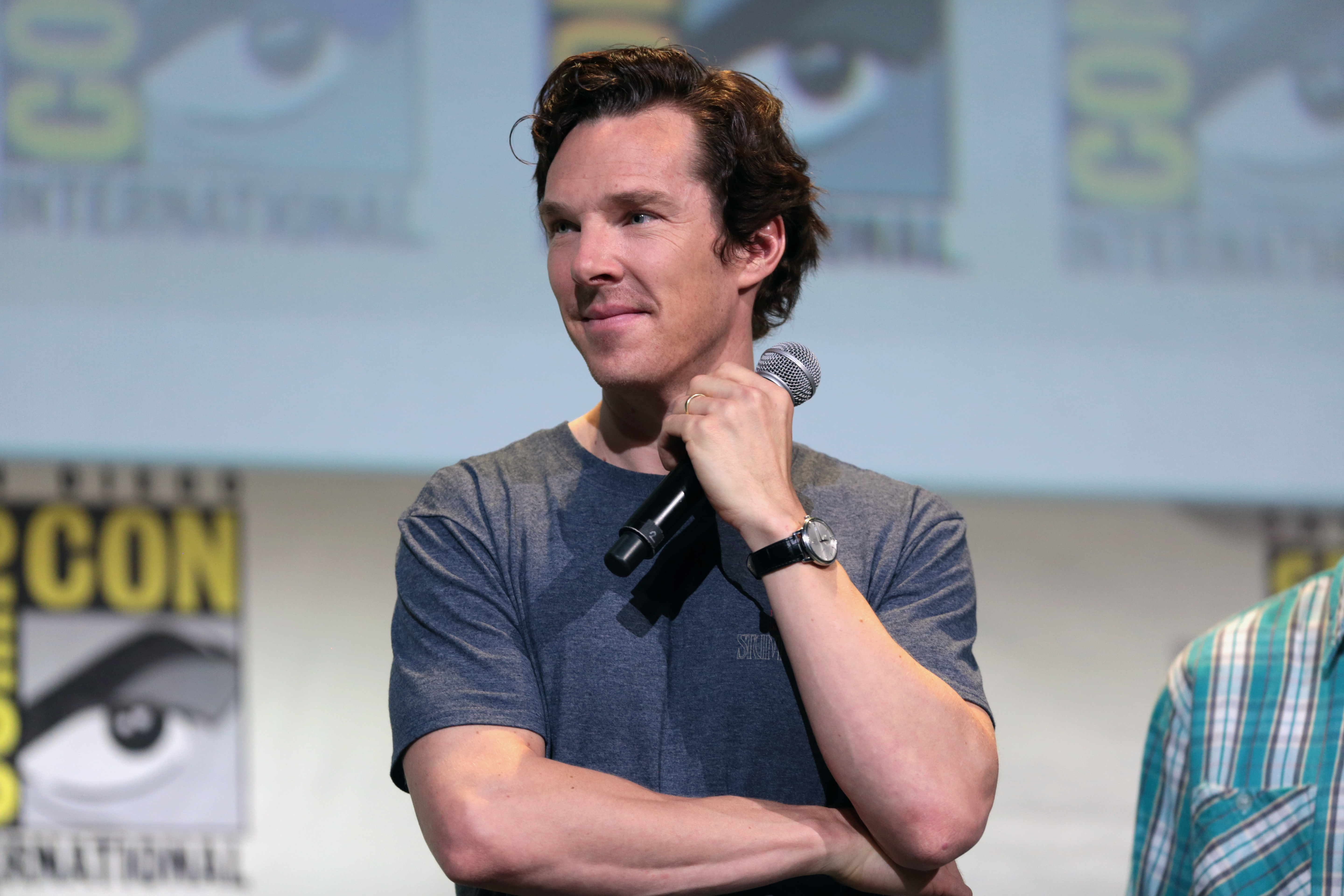 Benedict Cumberbatch speaking at the 2016 San Diego Comic Con International, for "Doctor Strange", at the San Diego Convention Center in San Diego, California.